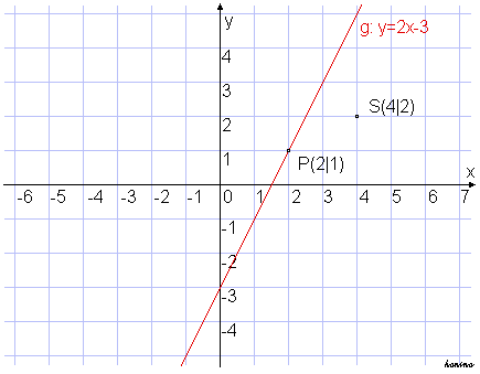 Cartesian coordinates